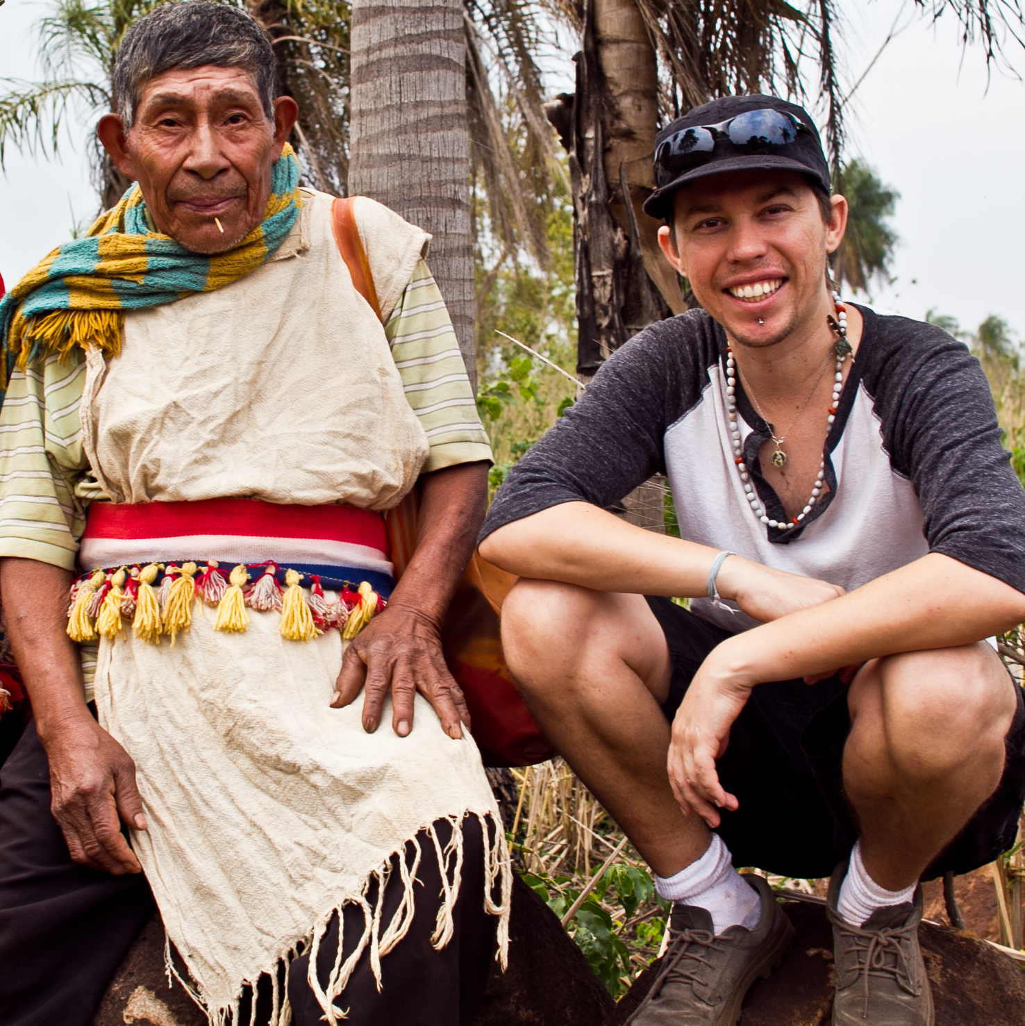 Frank Weaver has partner with local shaman, Galeano Suarez (who belongs to the Panambi'y tribe of the Guarani Indians) to document their oral storytelling.